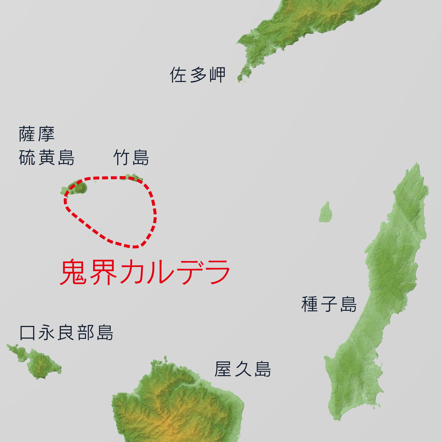 Kikai Caldera in Kagoshima Prefecture, Japan.